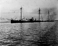 The wreck of Spanish Navy cruiser Don Antonio de Ulloa after the Battle of Manila Bay in 1898